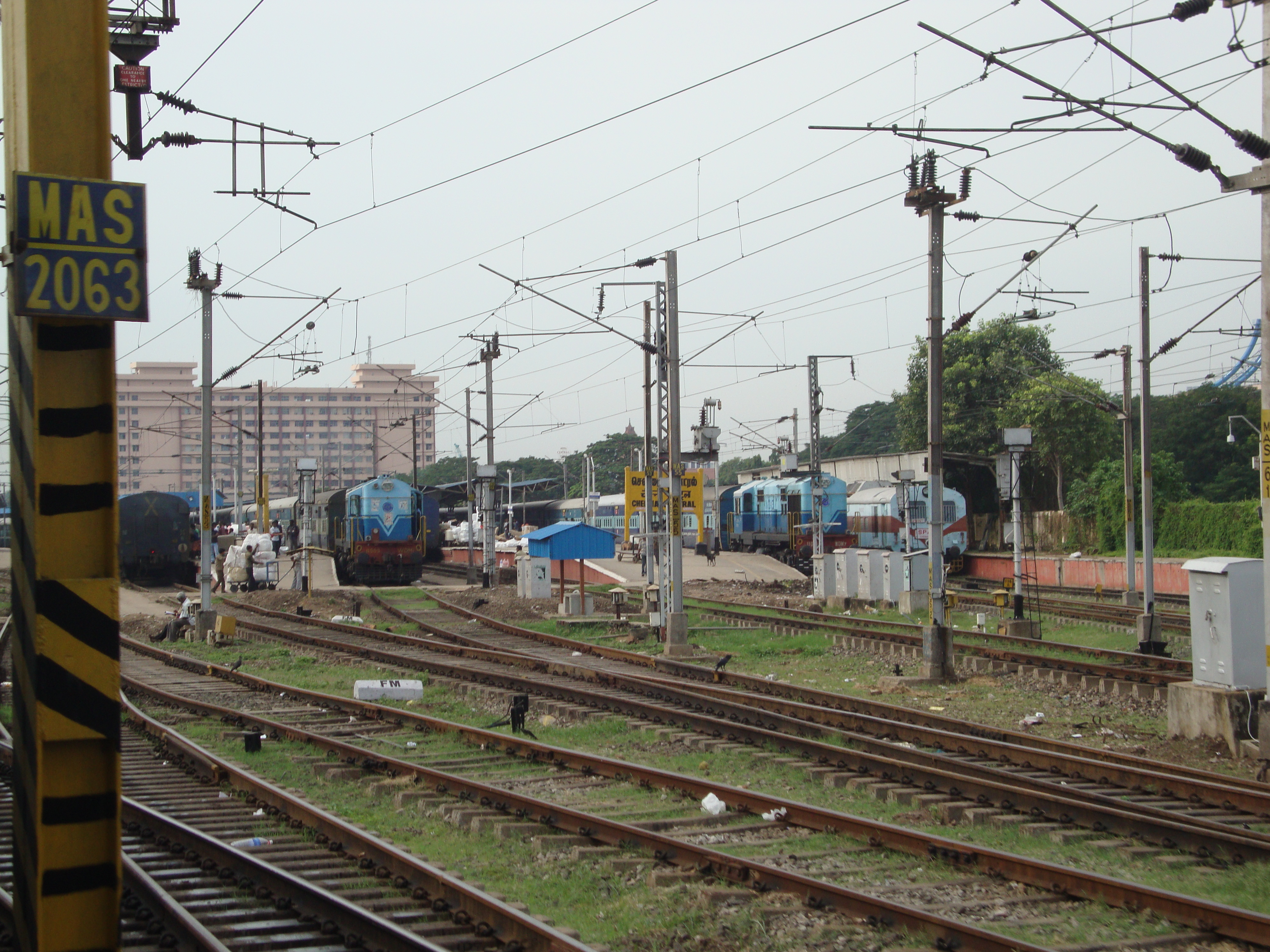 WDM class diesel locos at service in Chennai central station